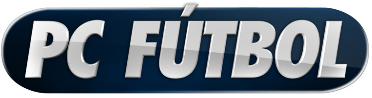 Wordmark of the PC Futbol series